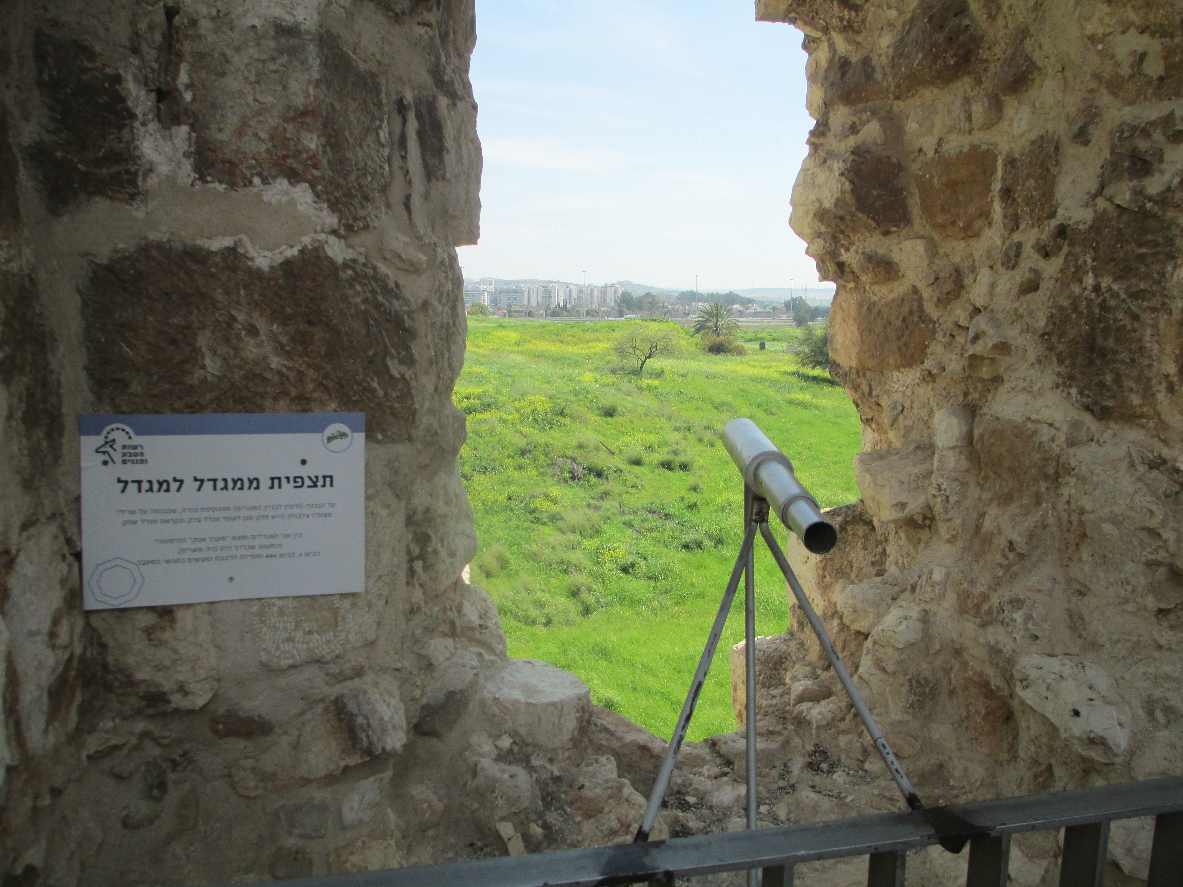 Fortress of Antipater